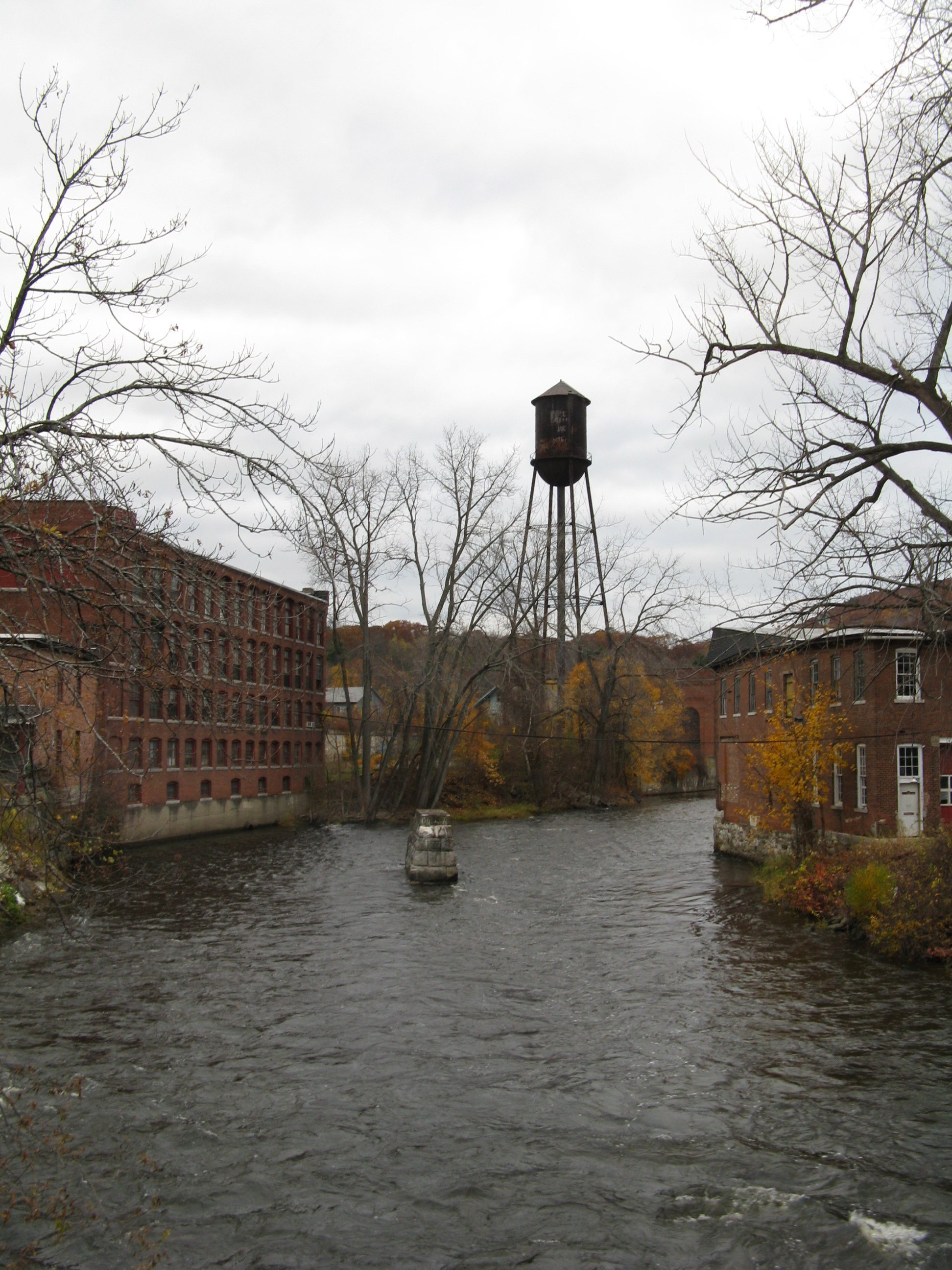 Housatonic River, Housatonic Massachusetts